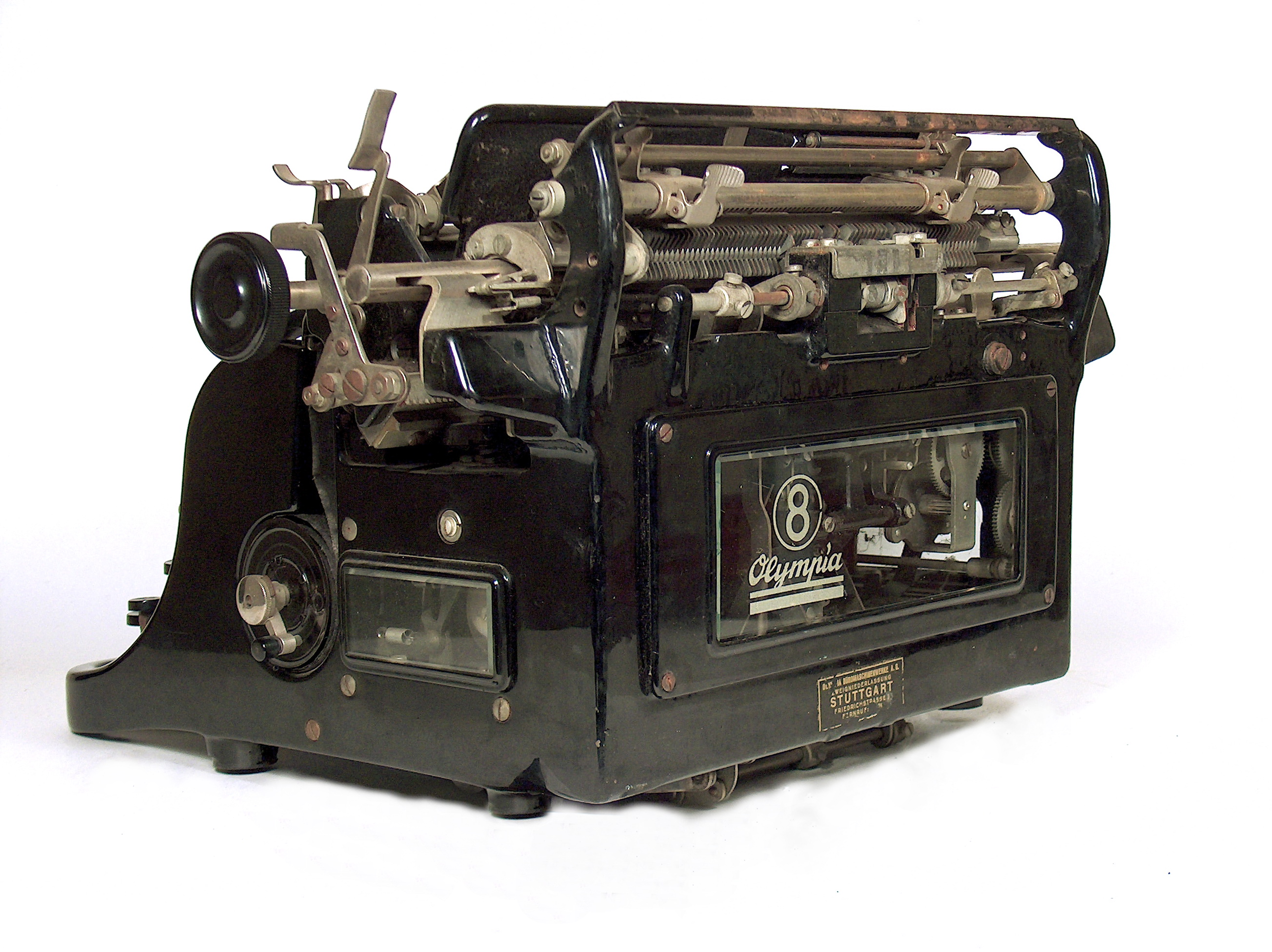 Back view and view of mechanism of Olympia typewriter model 8. This model can be found in the Museum of Science and Technology Belgrade.